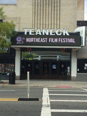 Picture of Teaneck Cinemas hosting the Northeast Film Festival from 9/5-9/7/2014